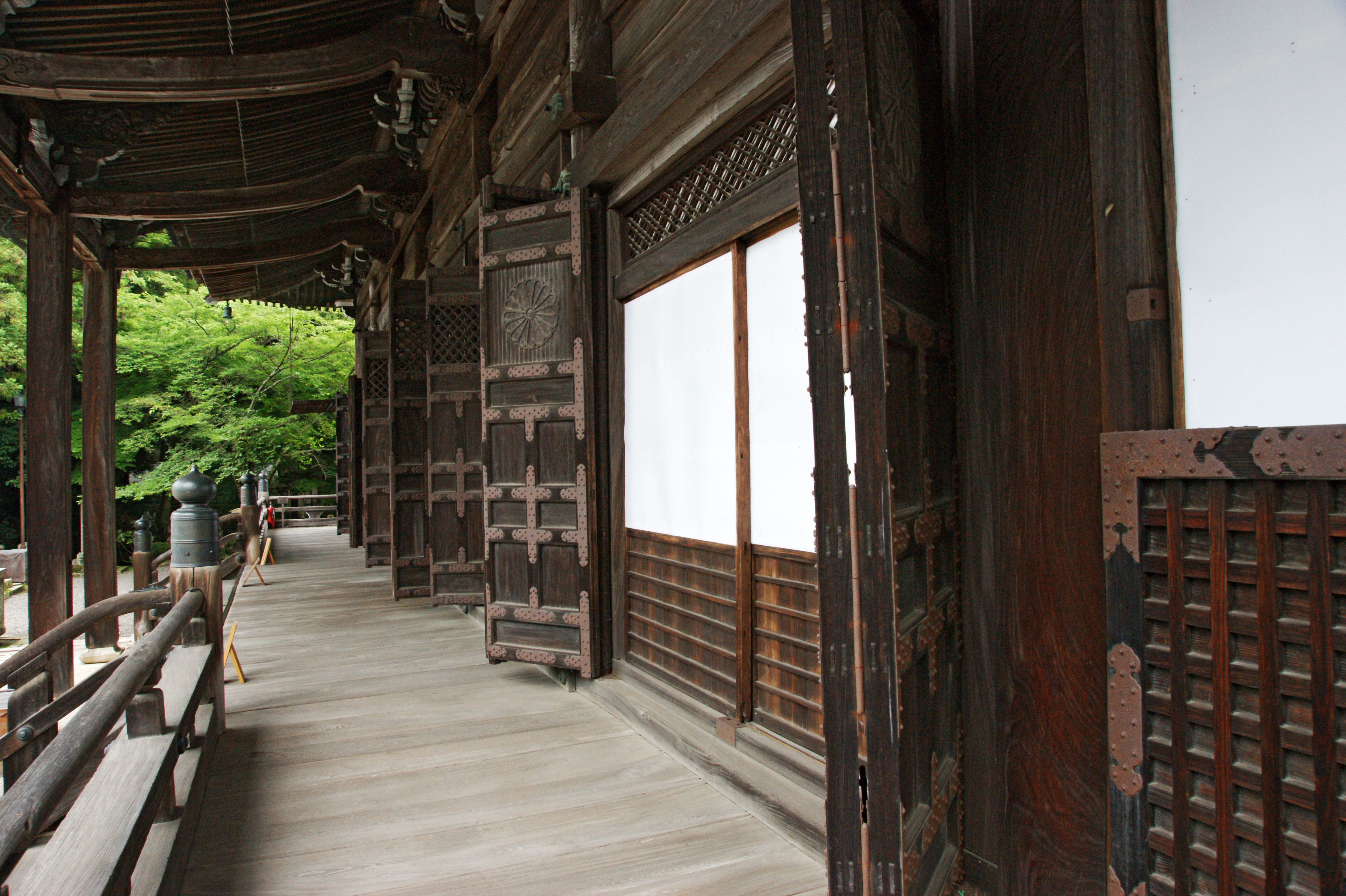 Saikyoji in Sakamoto, Otsu, Shiga prefecture, Japan